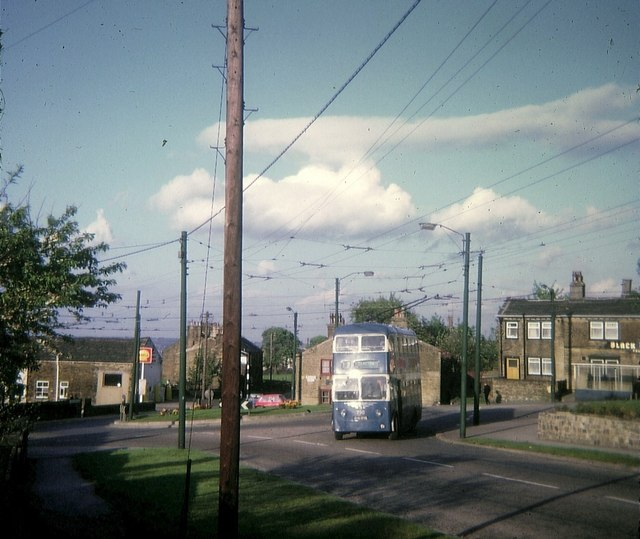 Bradford Trolleybus at Clayton (Town End) Karrier W trolleybus 790 (GHN 570) turning left from Green End to go up The Avenue to Clayton Terminus. The vehicle has East Lancs 70-seater dating from 1958, although it entered service in 1944 as a single-decker with Darlington Corporation. The Black Bull Hotel can be seen on the extreme right of the photo with a bus shelter in front of it.